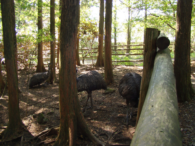 Emu in Fujikachouen Shizuoka Japan